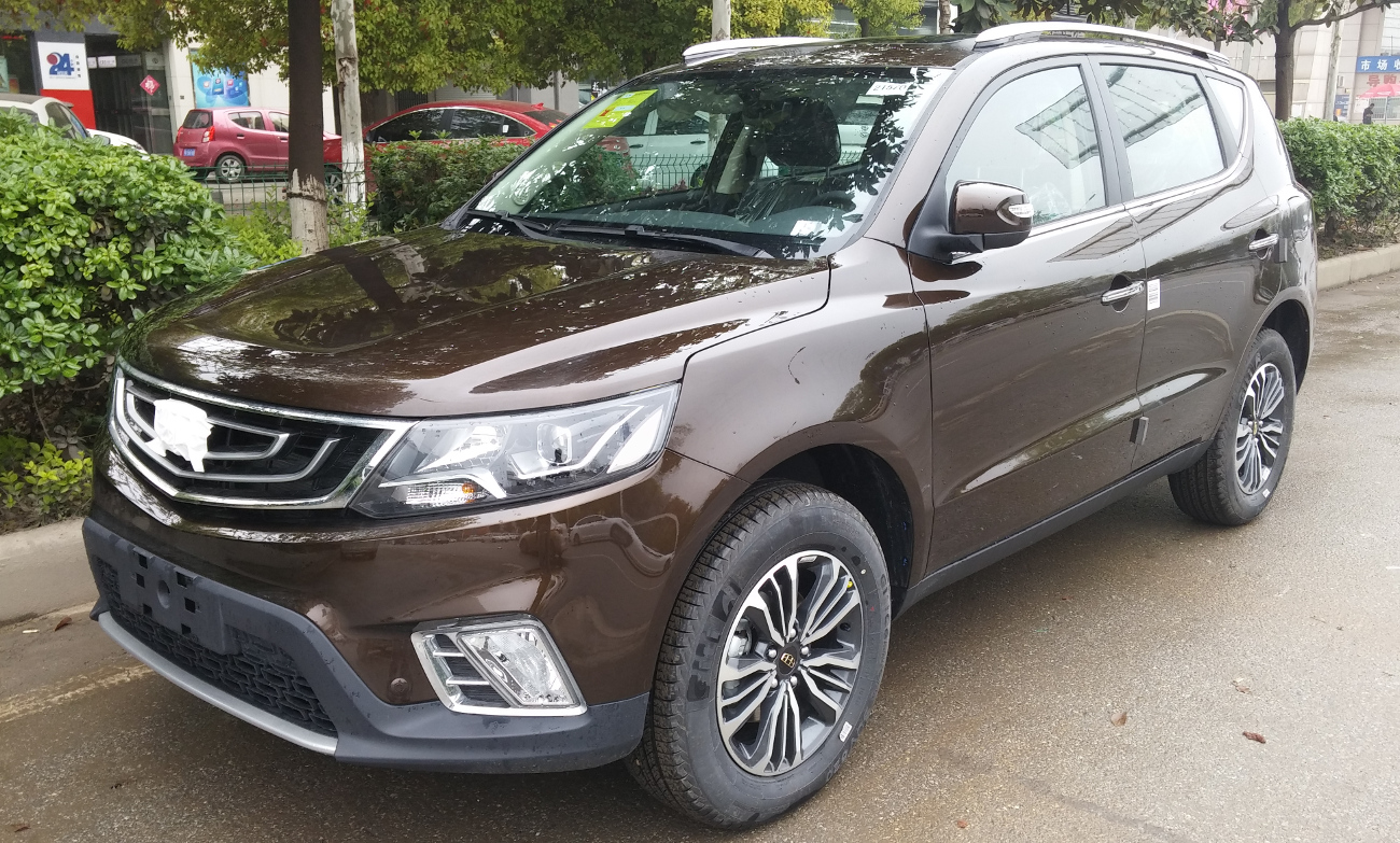 Geely Yuanjing X6 photographed in Wuhan, Hubei province, China.